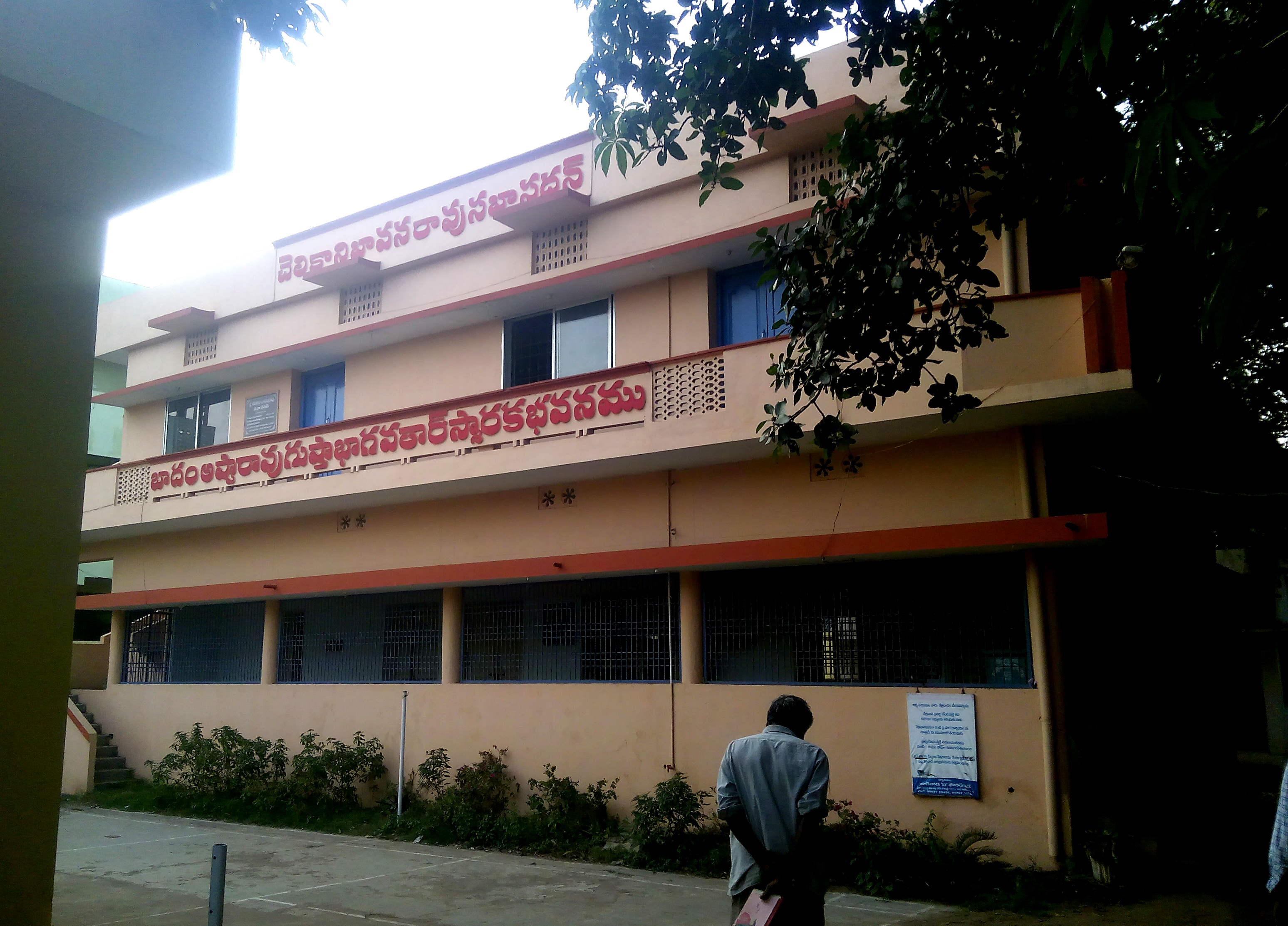 Suryaraya vidyananda Librery of A.P. Village Pithapuram